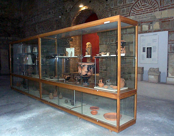 Exhibits Visaltia region, image from the Archaeological Museum, Serres, East Macedonia, Greece